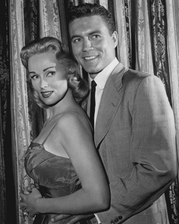 Photo of Roger Smith as Jeff Spencer and guest star Karen Steele from the television program 77 Sunset Strip.